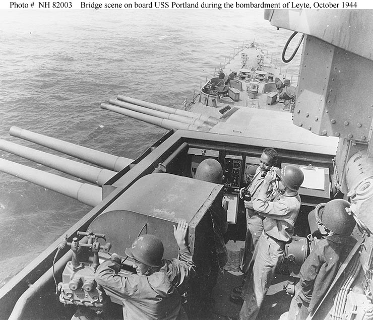 Scene on the open bridge during the bombardment of Leyte, October 1944. Officer standing in right center, without helmet, is the ship's Commanding Officer, Captain Thomas G.W. Settle.